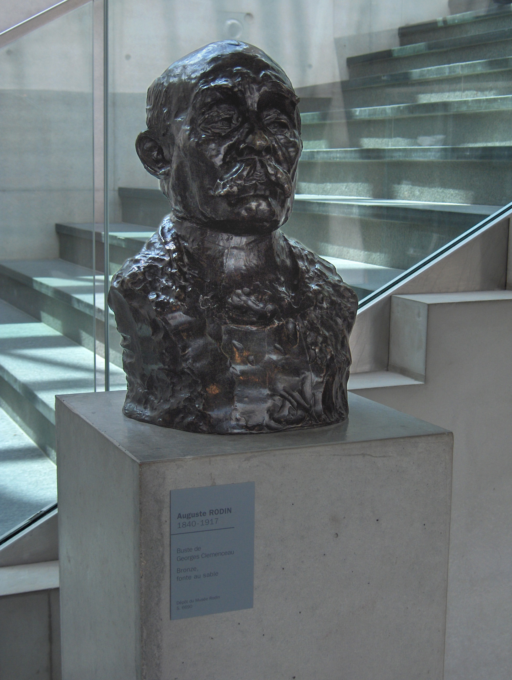 Auguste Rodin (Français, 1840-1917): Bust of Georges Clémenceau, Musée de l'Orangerie, Paris, France.